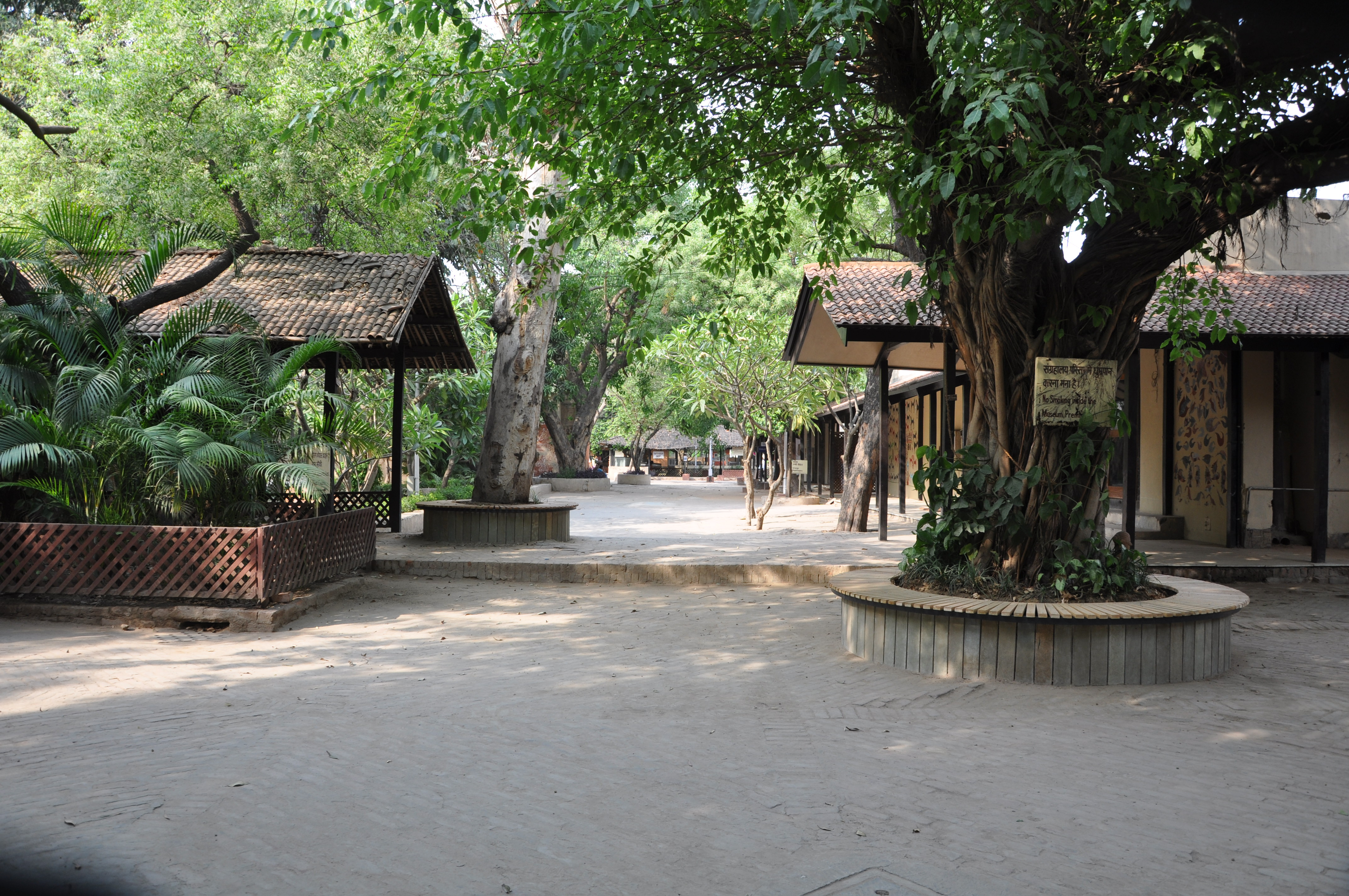 Crafts Museum view